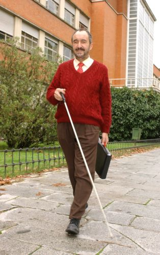 Ismael Martínez Liébana